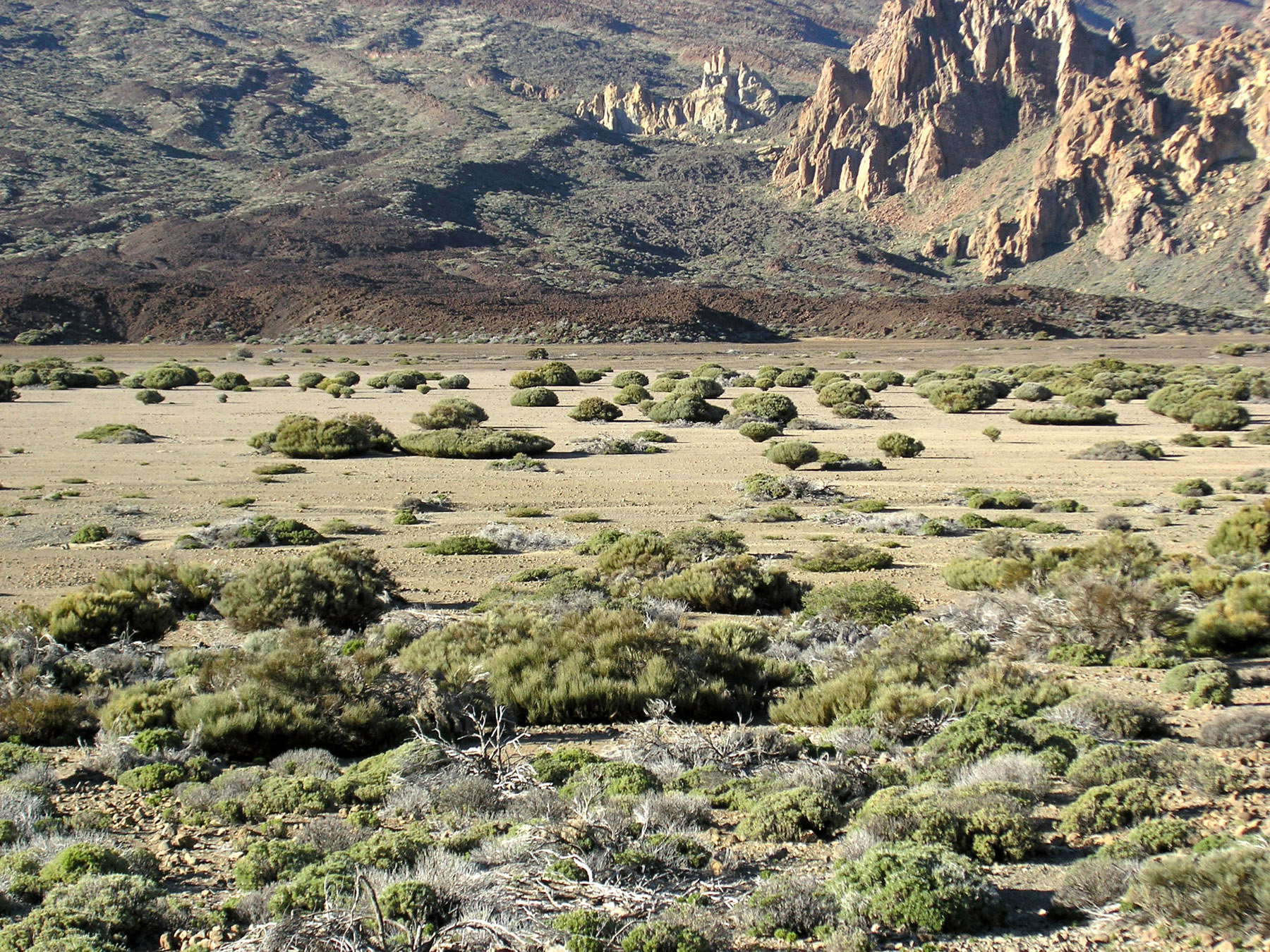 Landscape, Teide National Park, Tenerife (Roques de Garcia in the background)